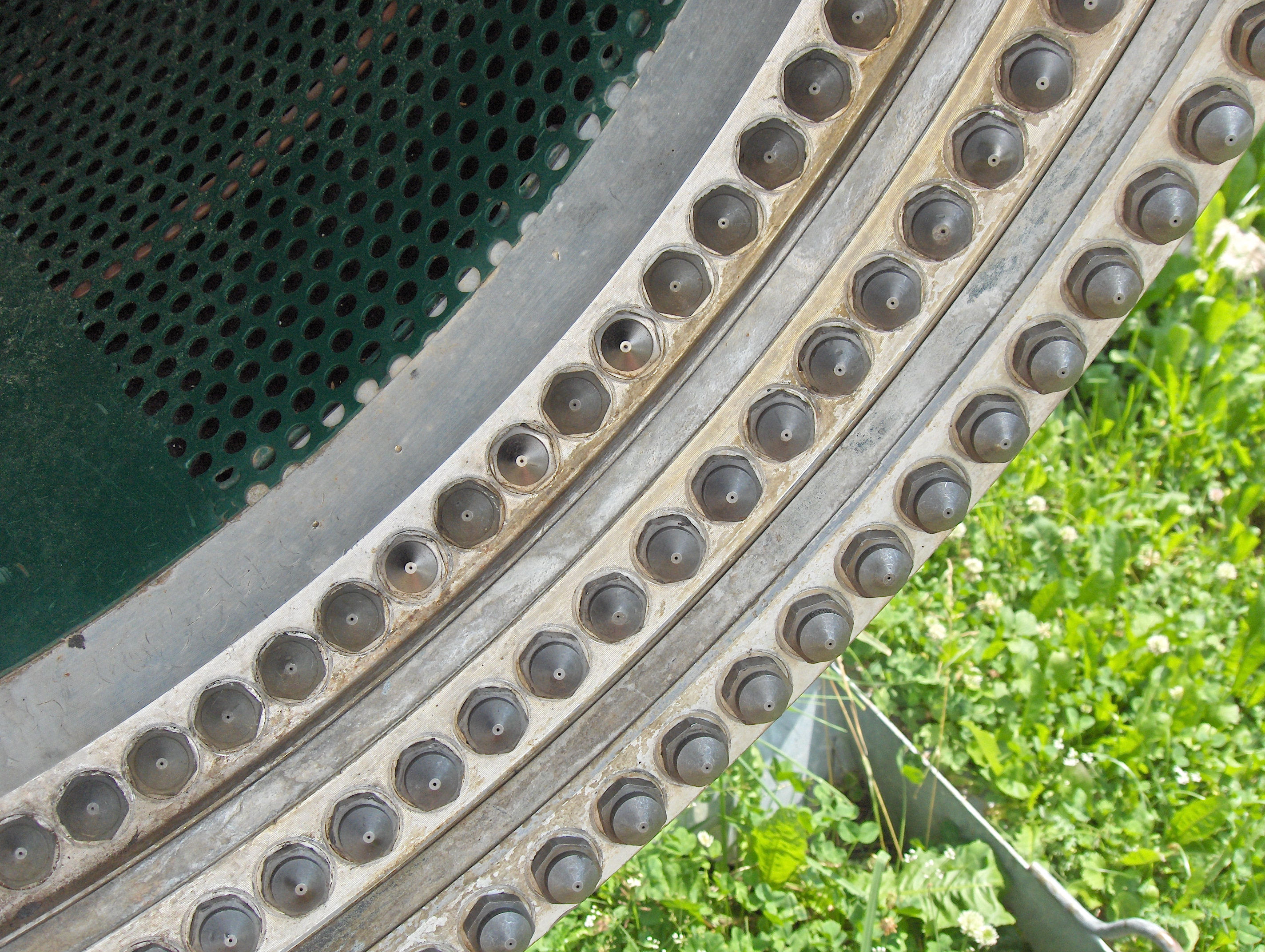 Close view of the nozzles of a snow cannon. They distribute the water that is condensed by the high pressure air jet. Author : Dake